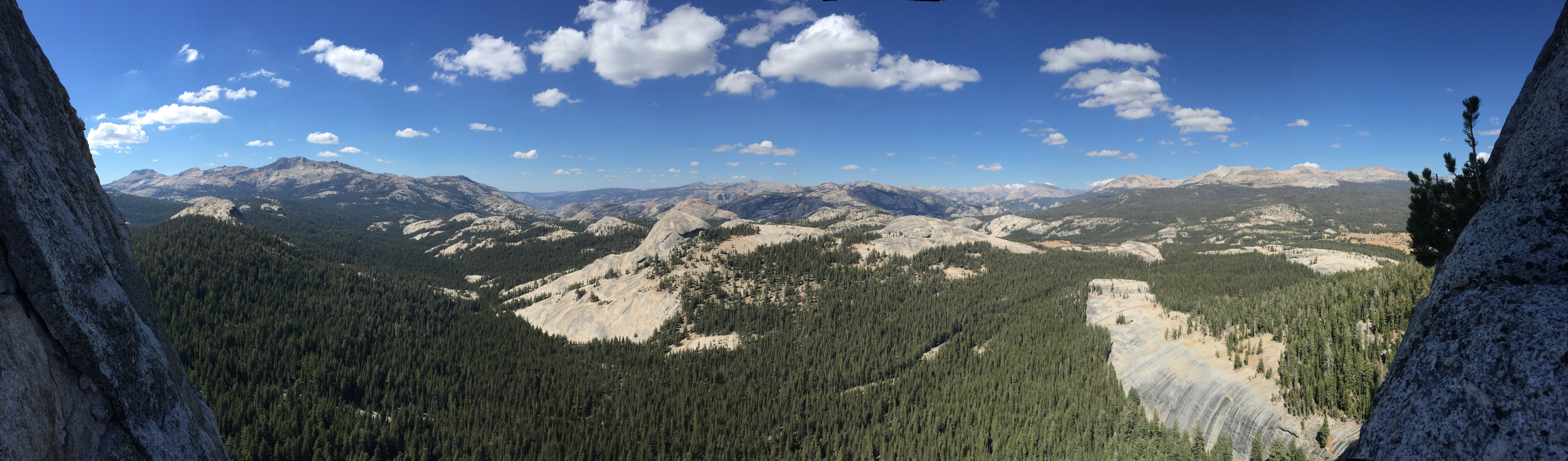 Tuolumne Meadows section of Yosemite National Park. Daff Dome from Fairview Dome